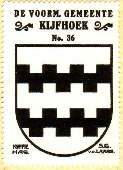 Coat of arms of Kijfhoek (Netherlands)